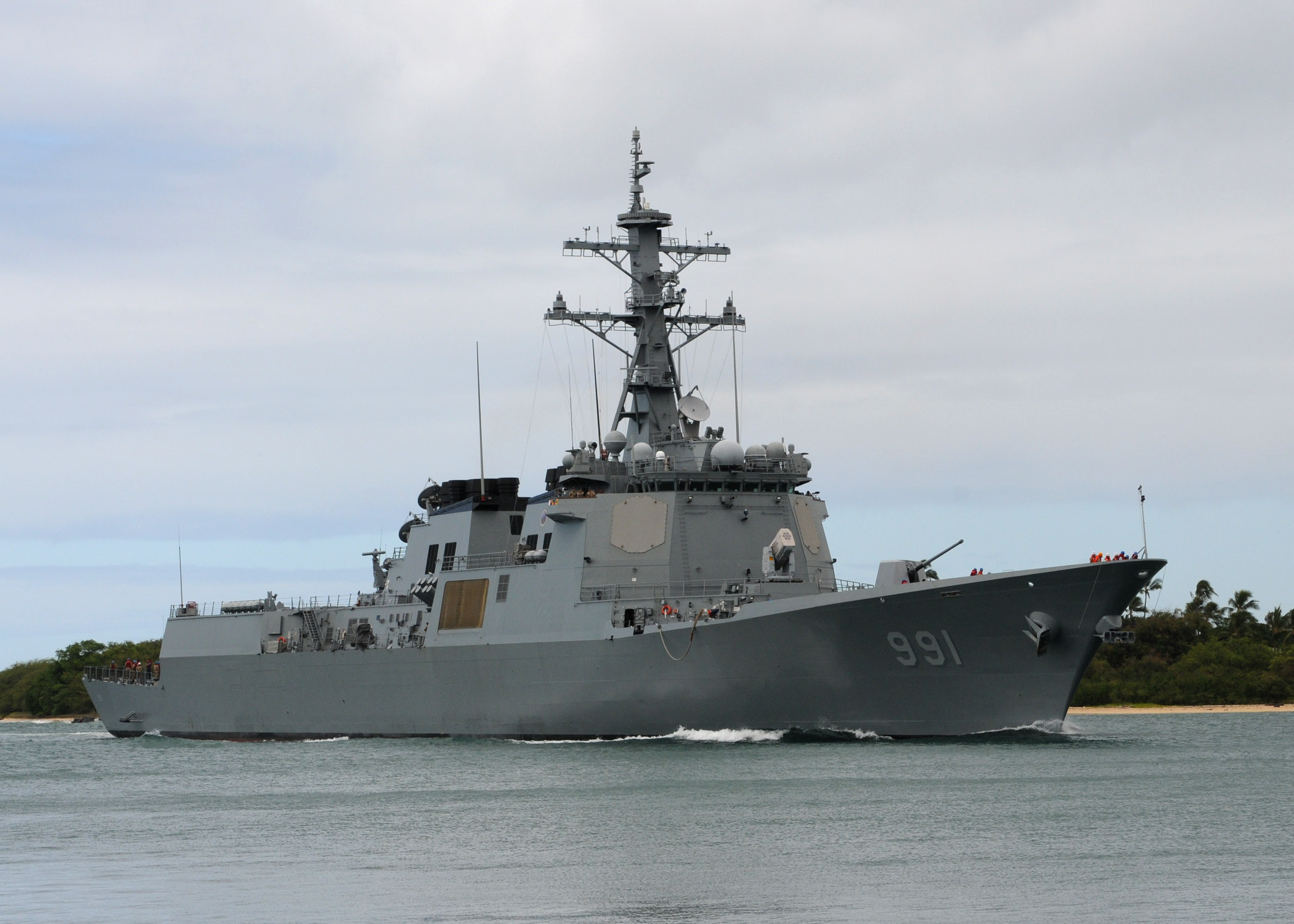 PEARL HARBOR (July 30, 2010) The Republic of Korea Navy guided-missile destroyer ROKS Sejong the Great (DDG 991) returns to Joint Base Pearl Harbor-Hickam after participating in Rim of the Pacific (RIMPAC) 2010 exercises. RIMPAC is a biennial, multinational exercise designed to strengthen regional partnerships and improve multinational interoperability. (U.S. Navy photo by Mass Communication Specialist 2nd Class N. Brett Morton/Released)